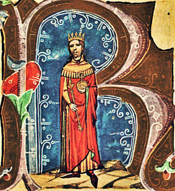 Béla II of Hungary